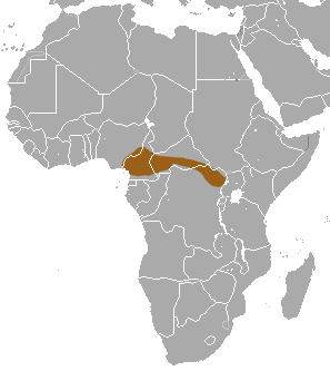 Hun Shrew (Crocidura attila) range